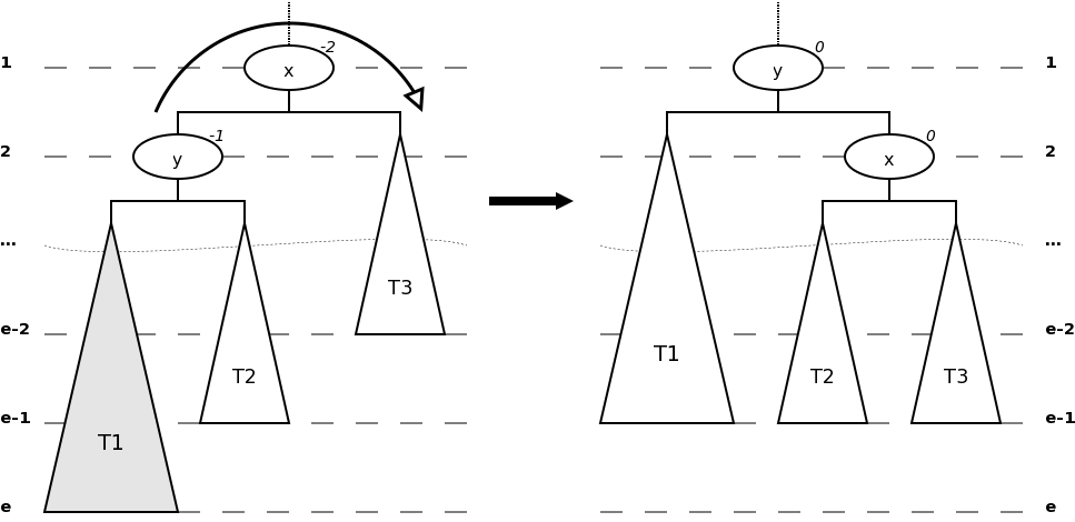 Right rotation (clockwise) of an AVL Tree, see also Image:AVL-Leftrotation.png.